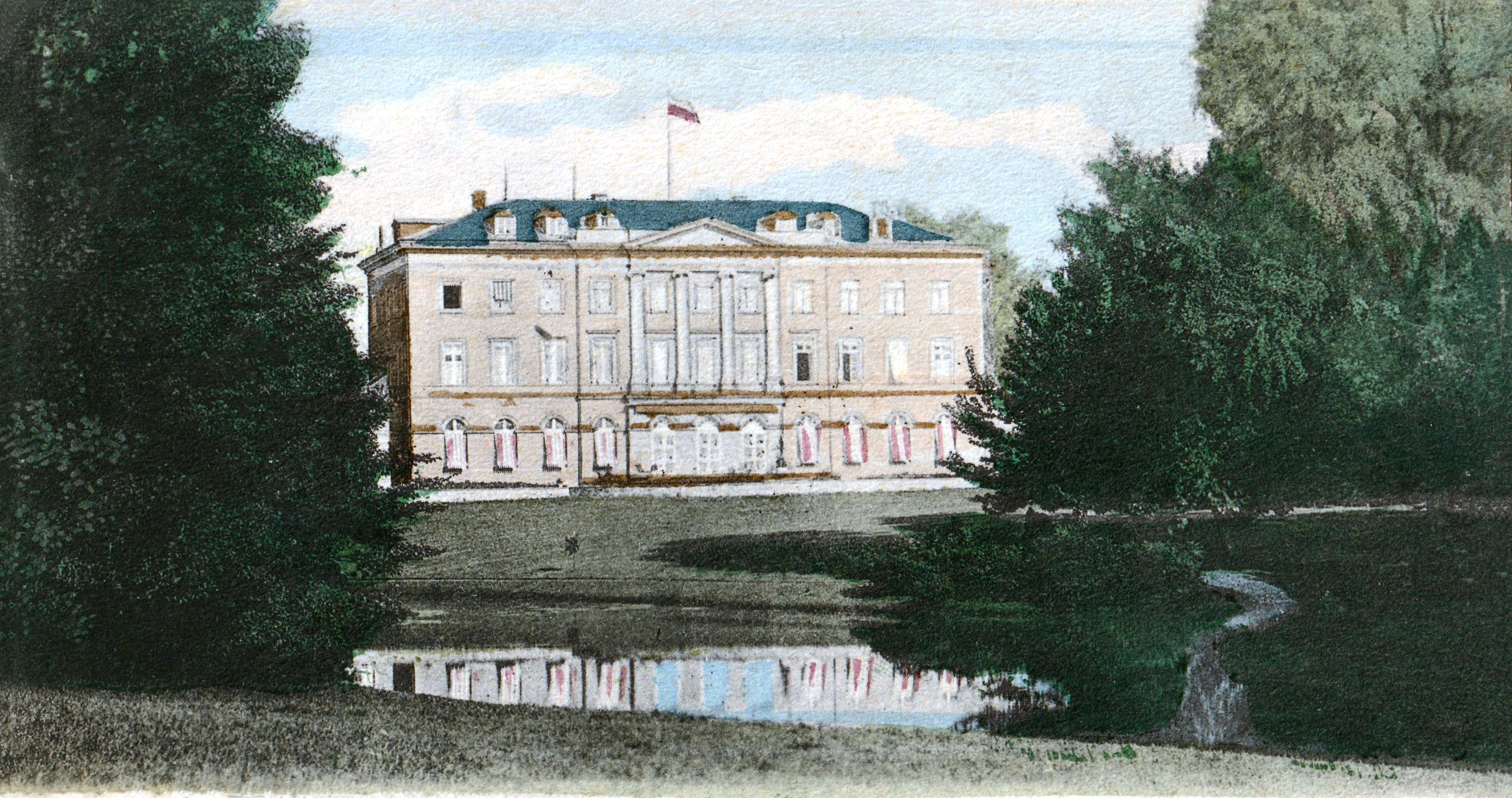 Dülmen castle in Dülmen, North Rhine-Westphalia, Germany; Post card (before 1908)